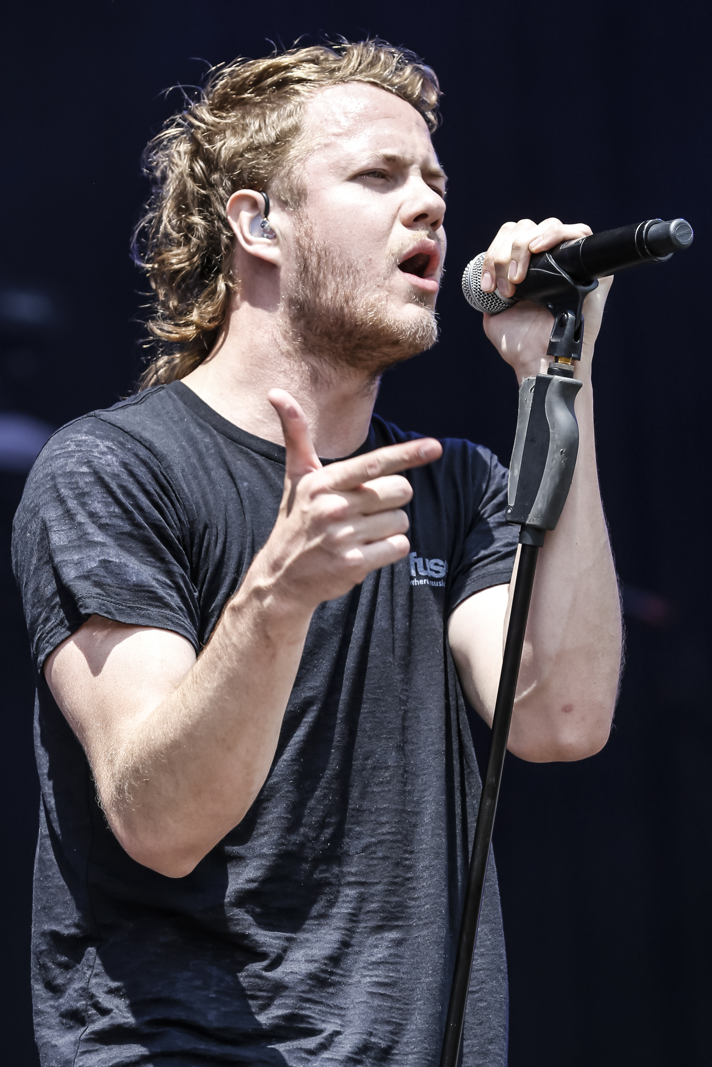 Dan Reynolds of Imagine Dragons at Rock im Park 2013 in Nuremberg, Germany